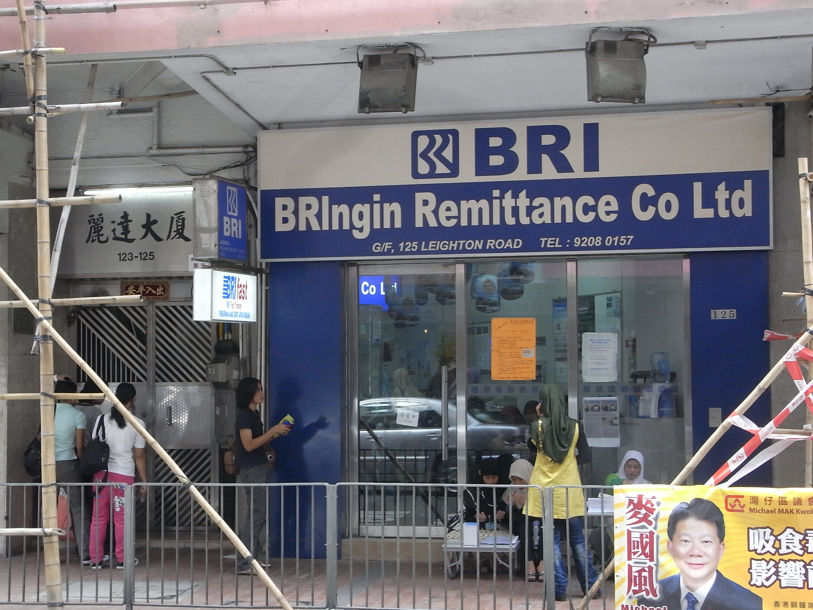 銅鑼灣